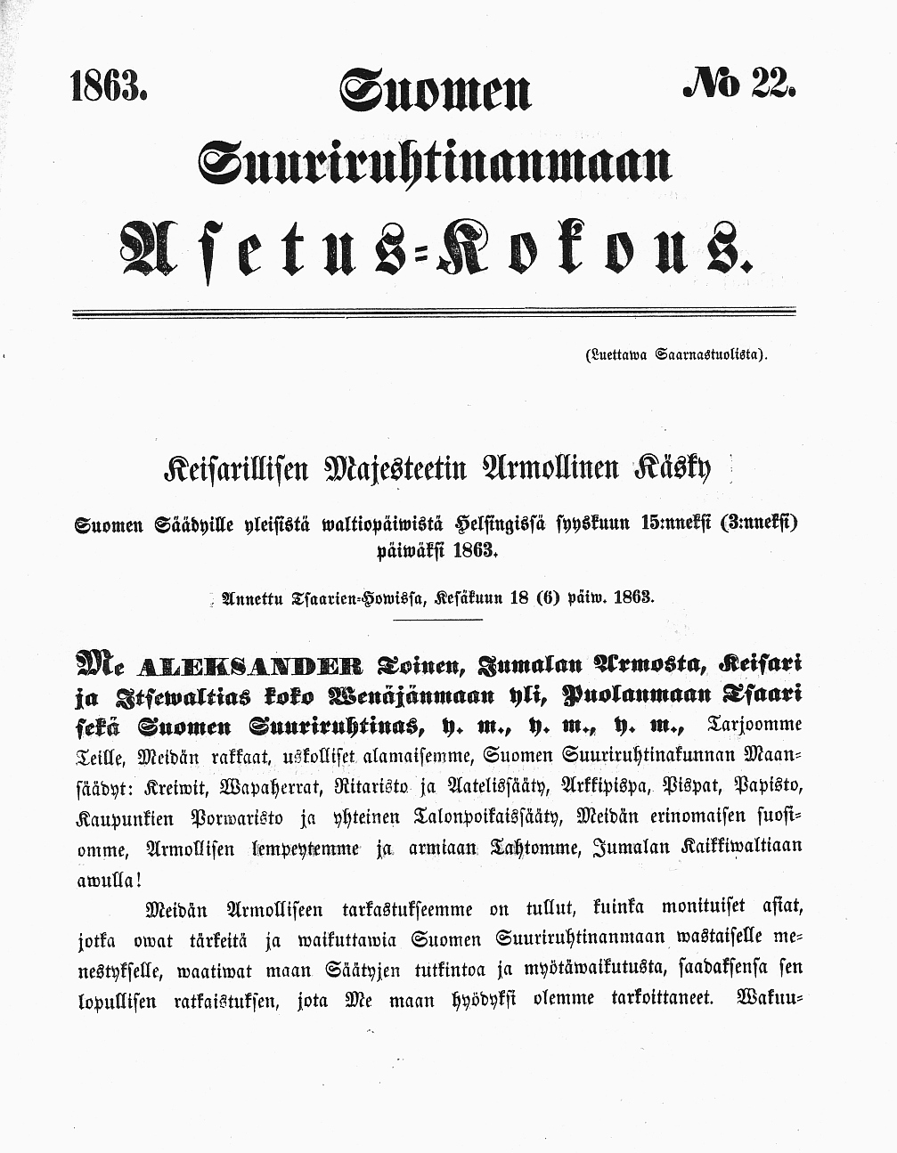 First page of the order by Alexander II of Russia for the Diet of 1863 in Finnish language.